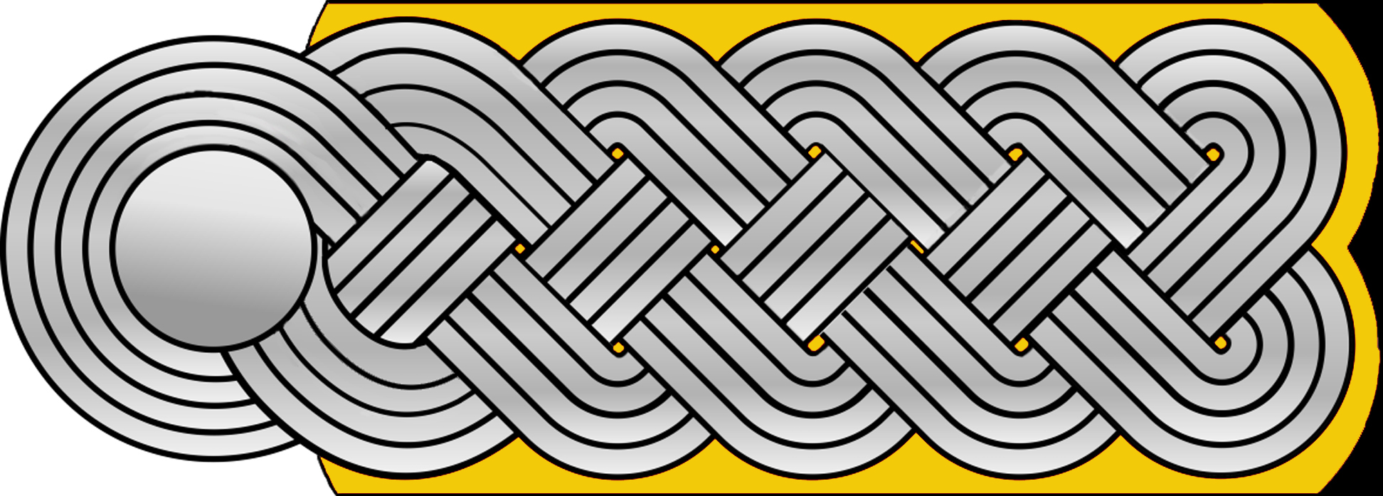 Rang insignia shoulder strap, here major of the Wehrmacht and SS-Sturmbannfuehrer of the Waffen-SS (OF-3) until 1945